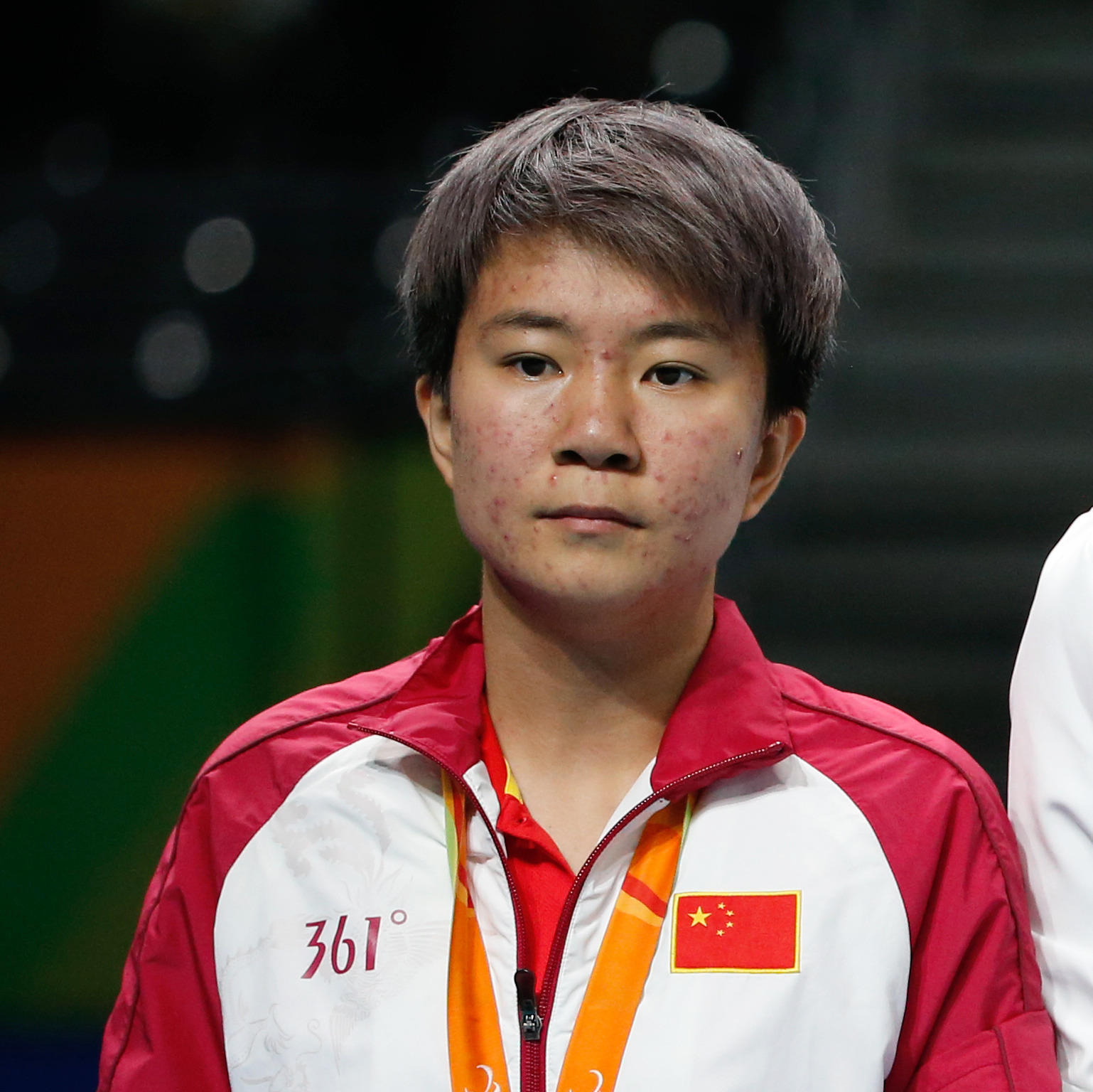 Rio de Janeiro - Podium for table tennis, CL10, at the Paralymics in Rio 2016: Qian Yang, of China (silver) (pix from Fernando Frazão/Agência Brasil)